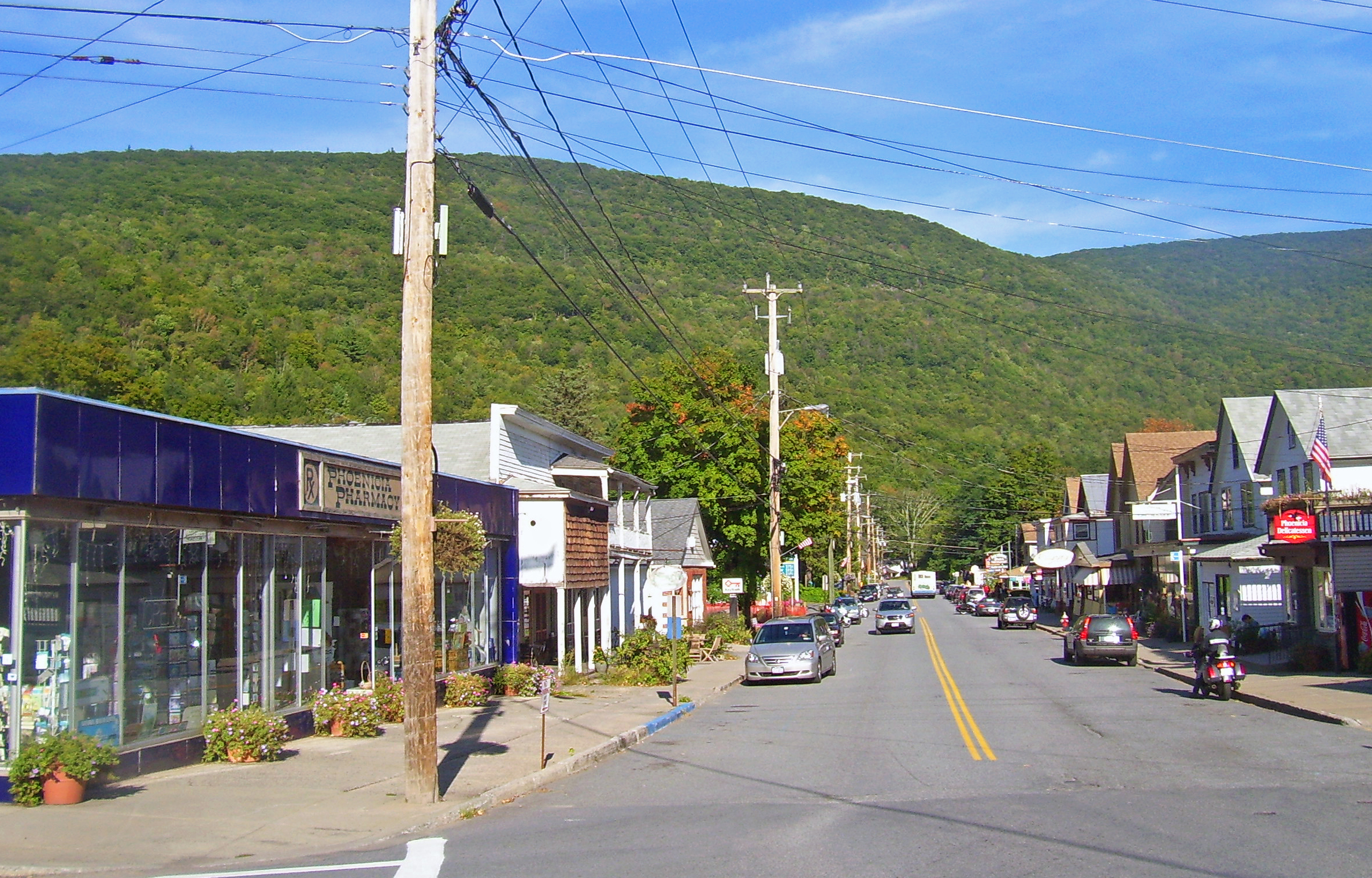 Looking east along Main Street from NY 214 towards Mt. Tremper, Phoenicia, NY, USA